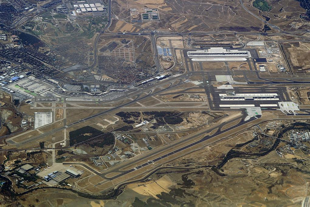 Photo taken on flight over Madrid Barajas Airport in 2005. Terminals 1, 2 and 3, at center-left of the photo, are connected. Terminals 4 and 4-satellite are the two large terminals near the right of the photo. Terminal 4 (which is 1.4km long) is near the top-right, and 4-s (1km long) is below it, between the two runways. Madrid Barajas has 4 runways. The 2 runways on the picture, 15R/33L and 15L/33R, are usually used for landings. Runways 18R/36L and 18L/36R are the two shown only partial on the right side of the picture. 18R/36L is the longest commercial runaway in Europe, measuring 4,350 meters long. Intercontinental and Non Schengen Agreement (UK,Ireland,etc) european flights arrive at T-4 Satellite. An underground automatic train connects T-4 Satellite with T-4 . Terminal 4 has 39 gates, 4-S has 26, and 1, 2, & 3 together have 42; there are in total 107 gates, plus dozens of remote stands. The new Real Madrid training camp is the isolated square on the top-center of the image, just above the acces highway.